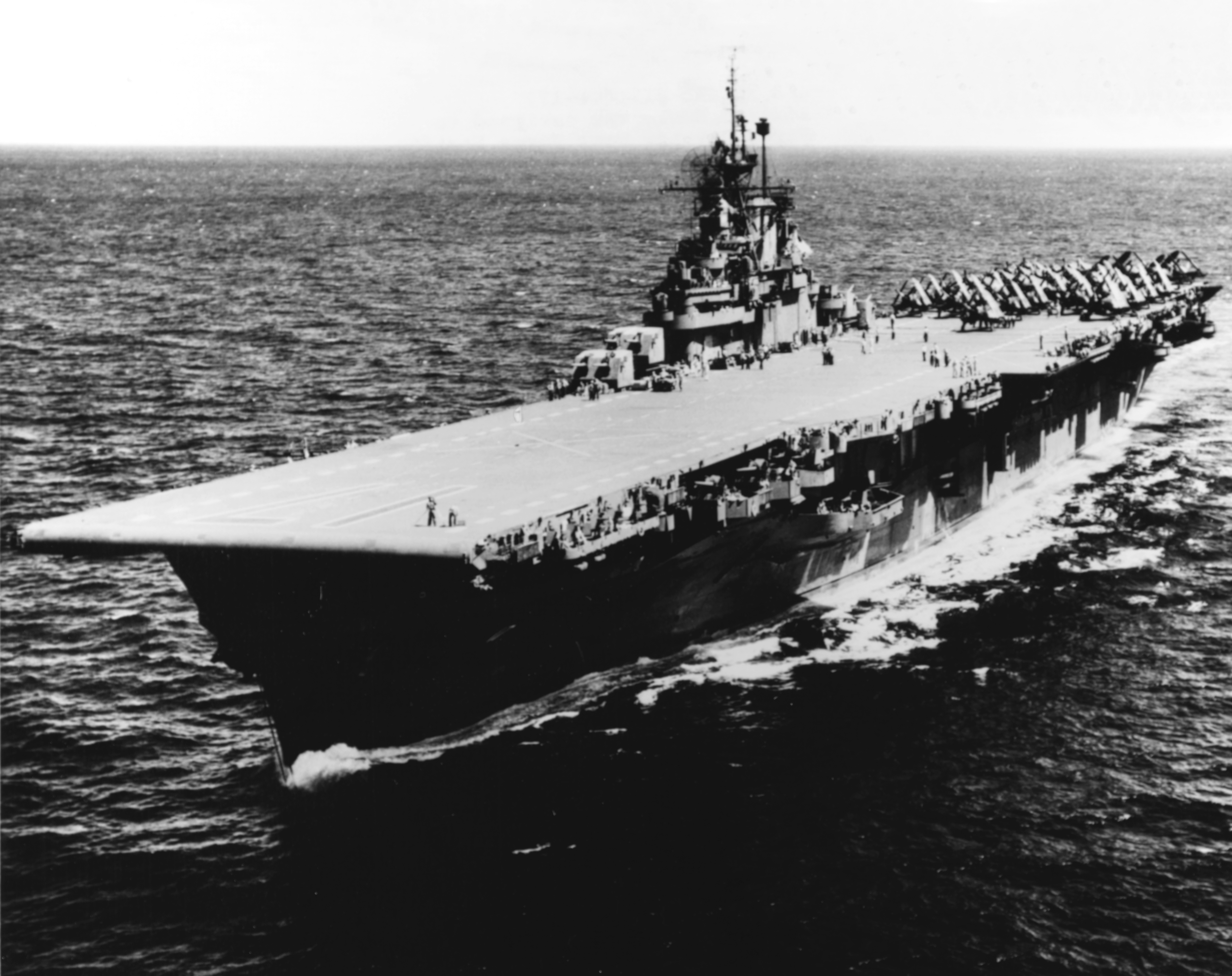 The U.S. Navy aircraft carrier USS Bunker Hill (CV-17) at sea in 1945. Note: The original photograph is dated 16 October 1945. Bunker Hill was still under repair at the Puget Sound Naval Shipyard, Bremerton, Washington (USA), from kamikaze damage received on 11 May 1945 when the war ended in mid-August. On 27 September 1945, she sailed from Bremerton to report for duty with the Operation Magic Carpet fleet, being equipped to transport troops to return veterans from the Pacific as a unit of TG 16.12. The vessel made return trips to the U.S. West Coast from Pearl Harbor, the Philippines, and Guam and Saipan. In January 1946 the ship was ordered to Bremerton for deactivation, and was decommissioned into reserve on 9 January 1947.